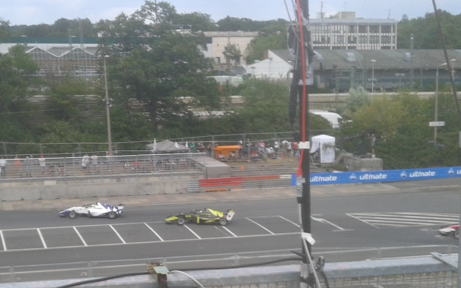 W Series race at the 2019 Norisring Speedweekend